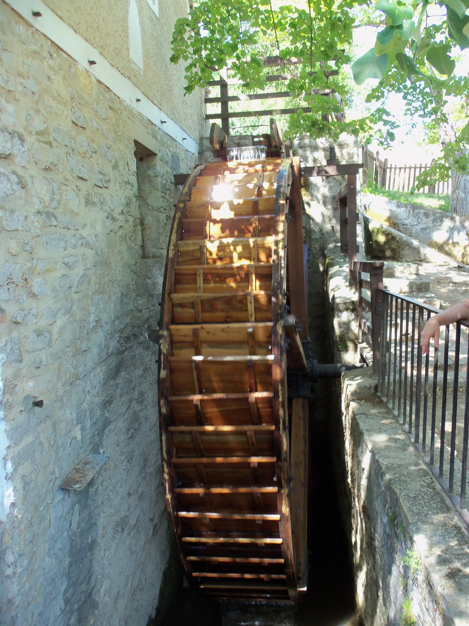 Watermill in Örvényes, Hungary